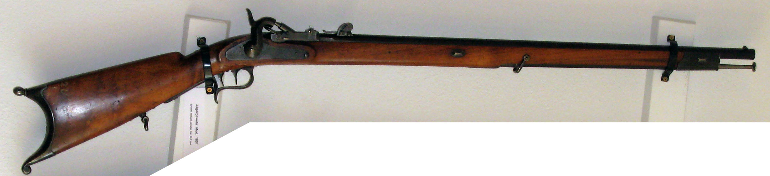 Rimfire percussion service carbine used by the Swiss army in the late 19th century.